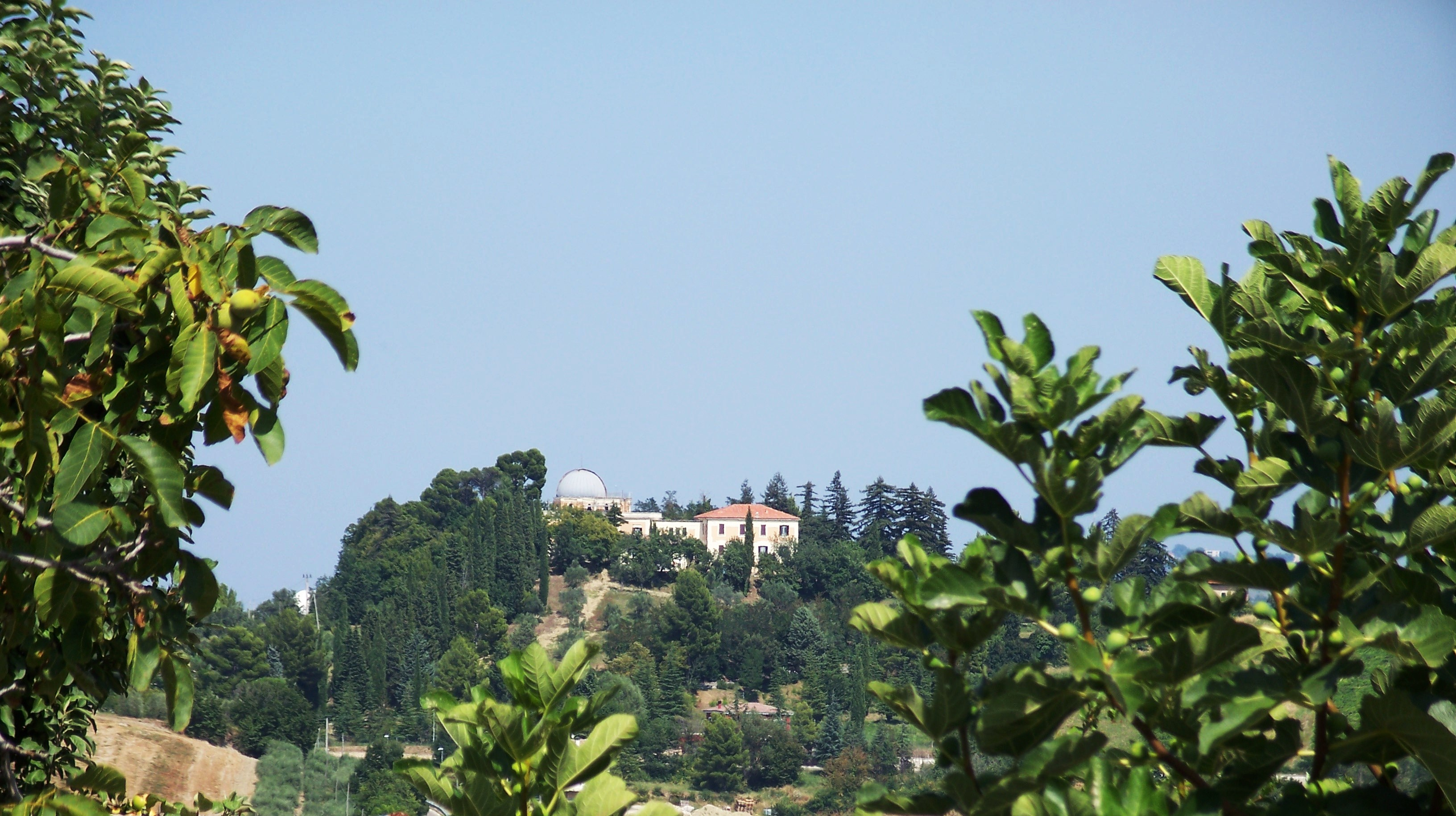 Collurania-Teramo Observatory